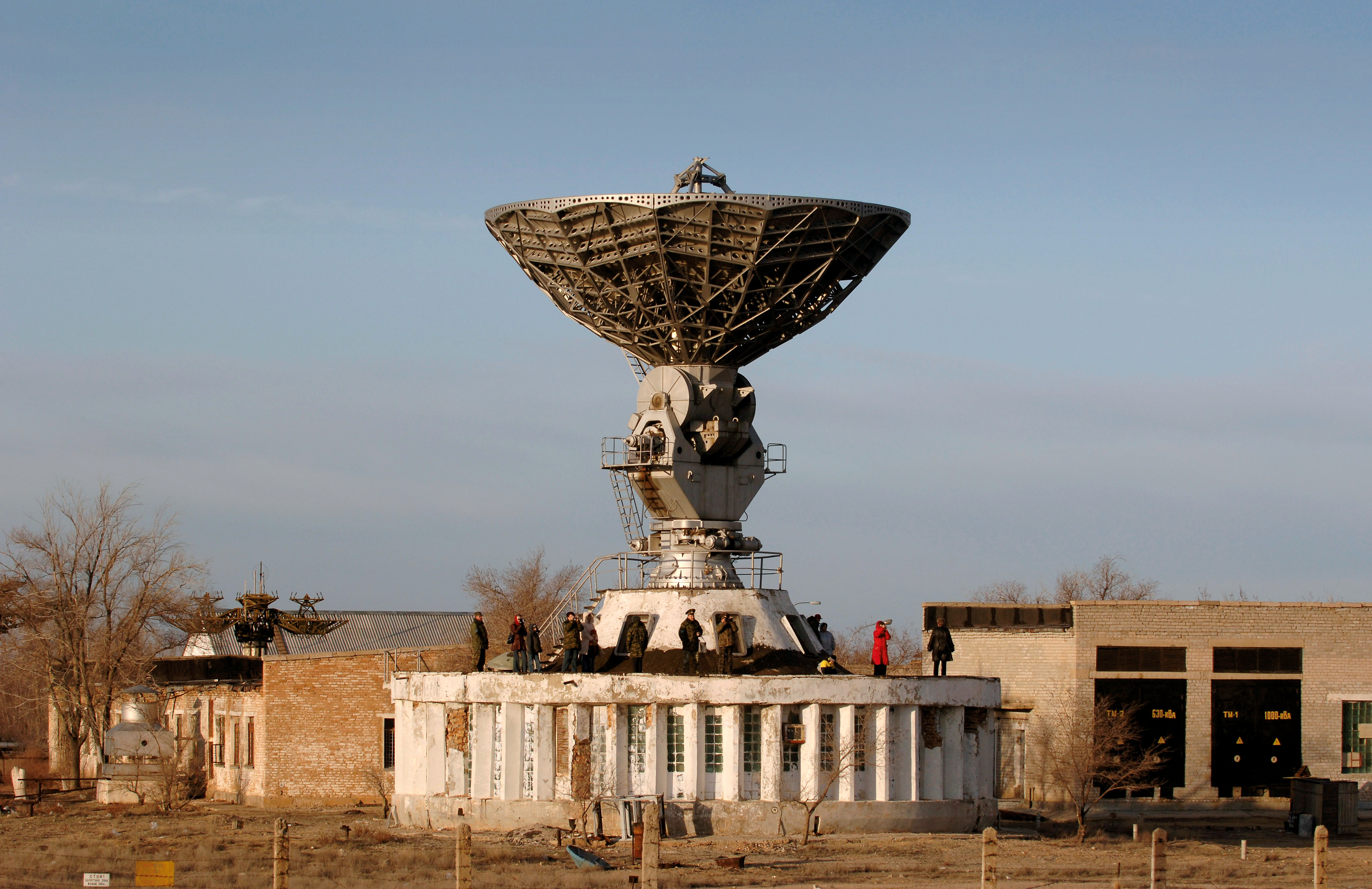 Parabolic antenna at the Baikonur Cosmodrome — in Baikonur City, Kazakhstan. Mounted on a Soviet Union era base structure. Spectators try to grab the highest viewing point to watch the launch of the Soyuz. The Soyuz TMA-8 spacecraft launched with Expedition 13 crew members cosmonaut Pavel V. Vinogradov, Russia’s Federal Space Agency International Space Station commander; astronaut Jeffrey N. Williams, NASA International Space Station science officer and flight engineer; and astronaut Marcos Pontes, Brazilian Space Agency Soyuz crew member. They began their mission Wednesday evening launching from Baikonur, Kazakhstan at 8:30 a.m. (Kazakhstan time). Pontes will return home with Expedition 12 on April 8.